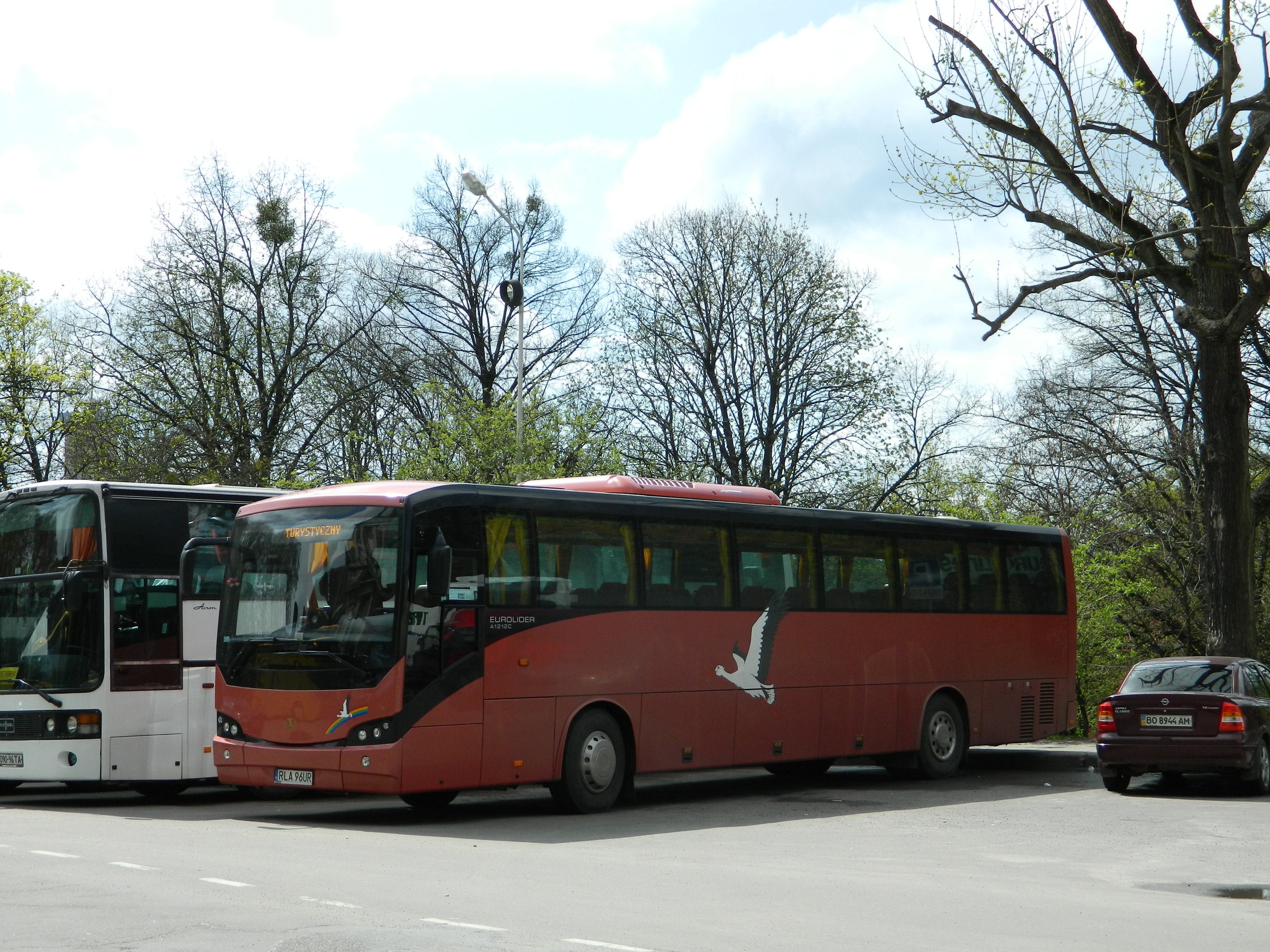 Autosan A1212C Eurolider intercity bus (reg. RLA 96UR) from Poland in Vynnychenko street, Lviv, Ukraine. Veolia Transport Polska operator.